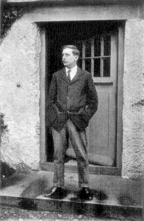 H. G. Wells outside his house at Sandgate